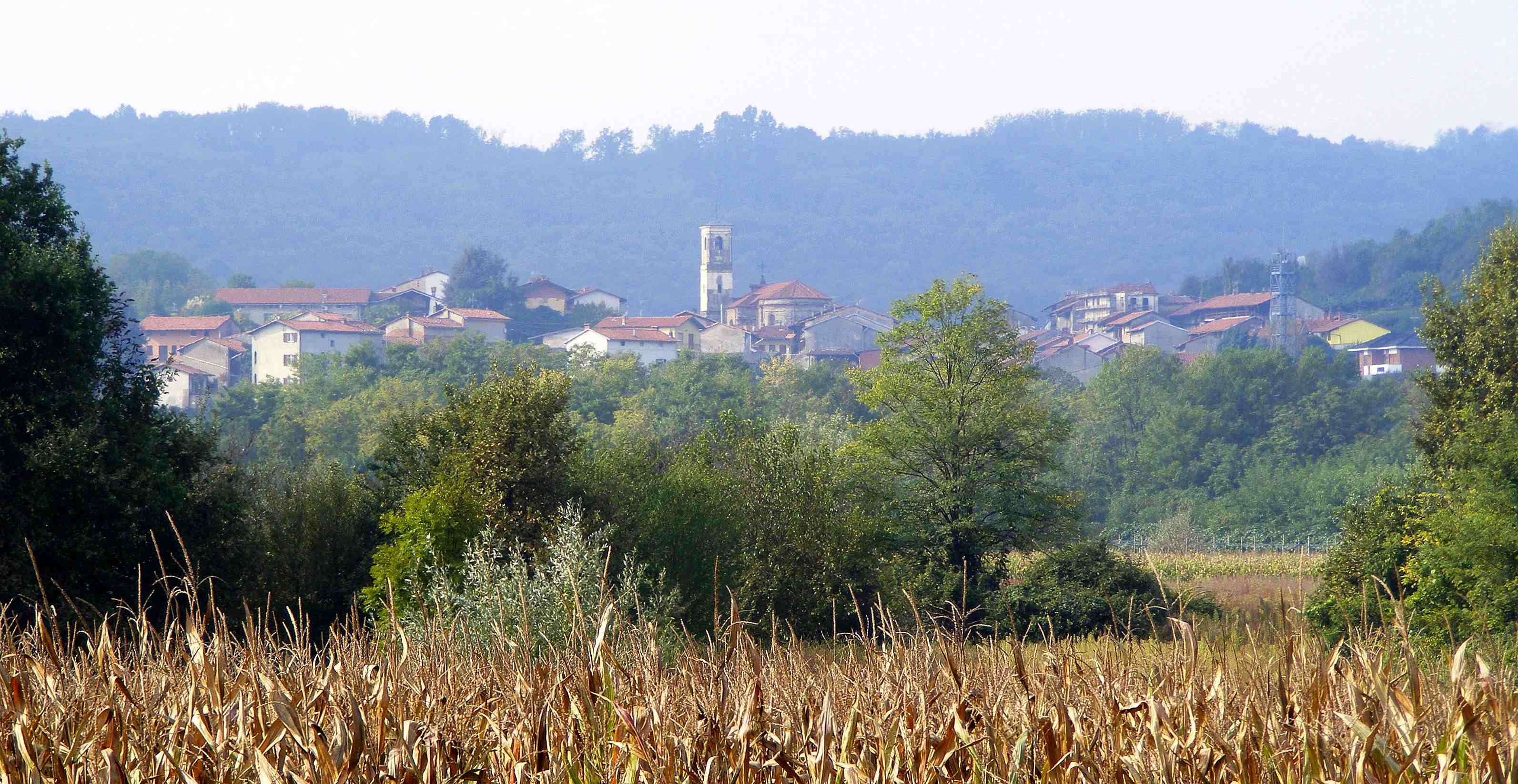 Cossano Canavese (TO, Italy): panorama